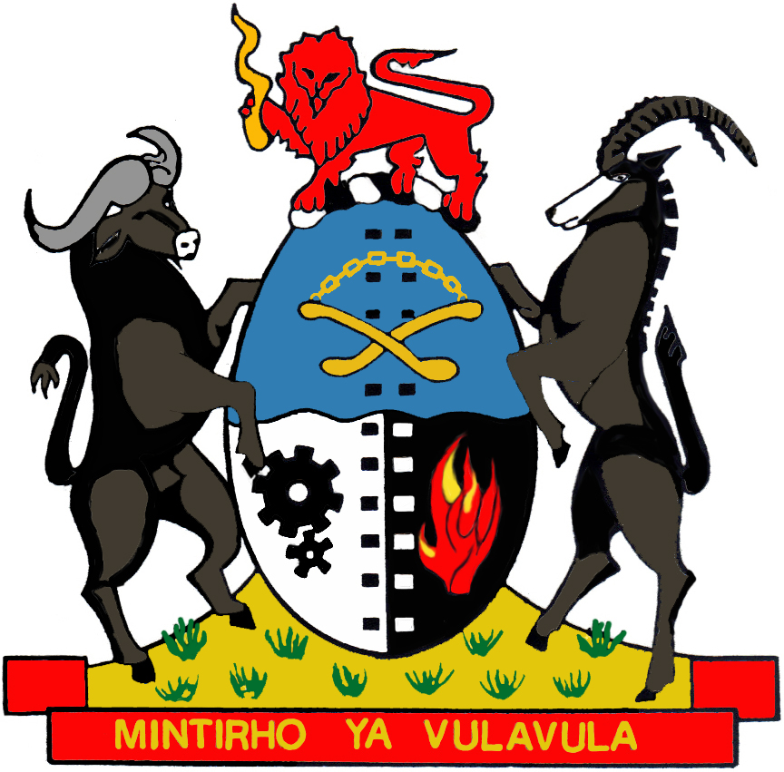 Gazankulu coat of arms